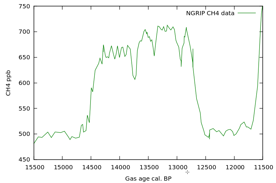 NGRIP late Weichselian glacial age Bölling-Alleröd-Younger dryas methane amount data. Methane data is from source " Methane (CH4) record from the North Greenland Ice Sheet Project (NGRIP) ice core, Greenland, covering 32-11KYrBP, 10-17-2012 Authors: M. Baumgartner, A. Schilt, O. Eicher, J. Schmitt, J. Schwander, R. Spahni, H. Fischer, and T. F. Stocker Journal Name: Biogeosciences Published Title: High-resolution interpolar difference of atmospheric methane around the Last Glacial Maximum Published Date: 10-16-2012 ftp://ftp.ncdc.noaa.gov/pub/data/paleo/icecore/greenland/summit/ngrip/gases/ngrip2012ch4.txt